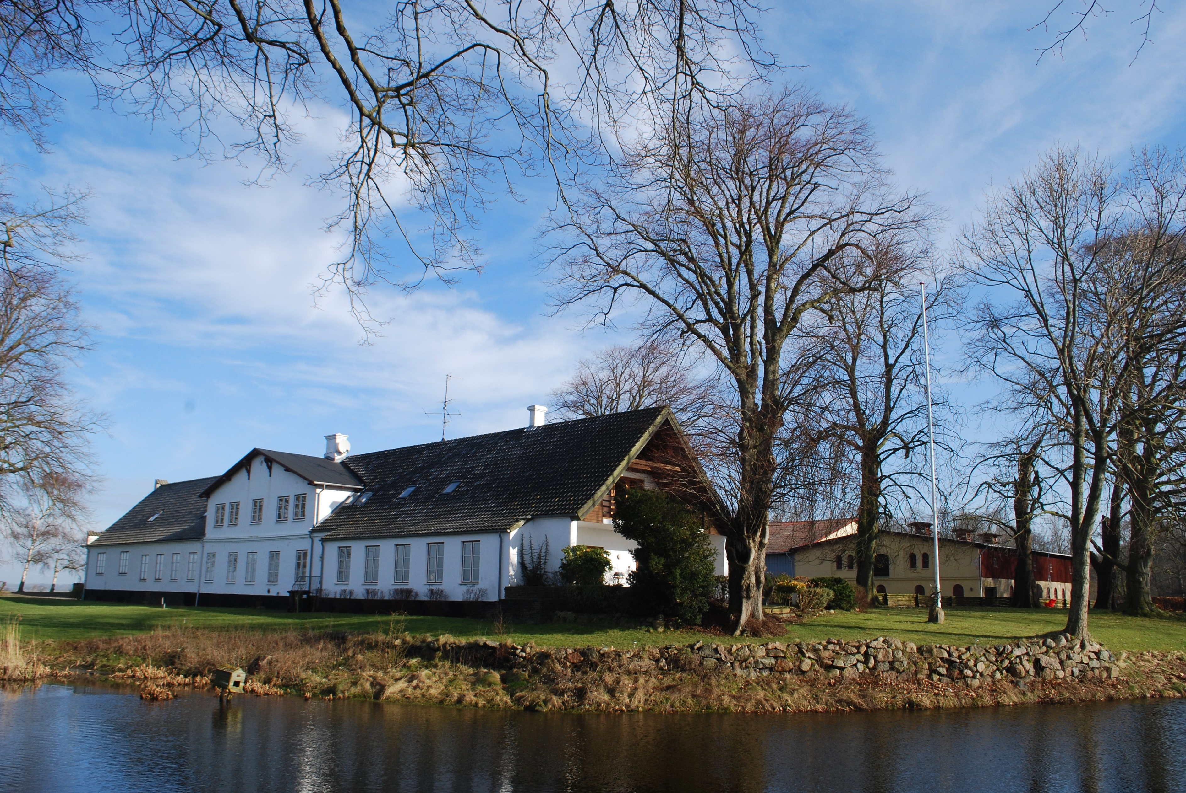 Rønhave, Denmark